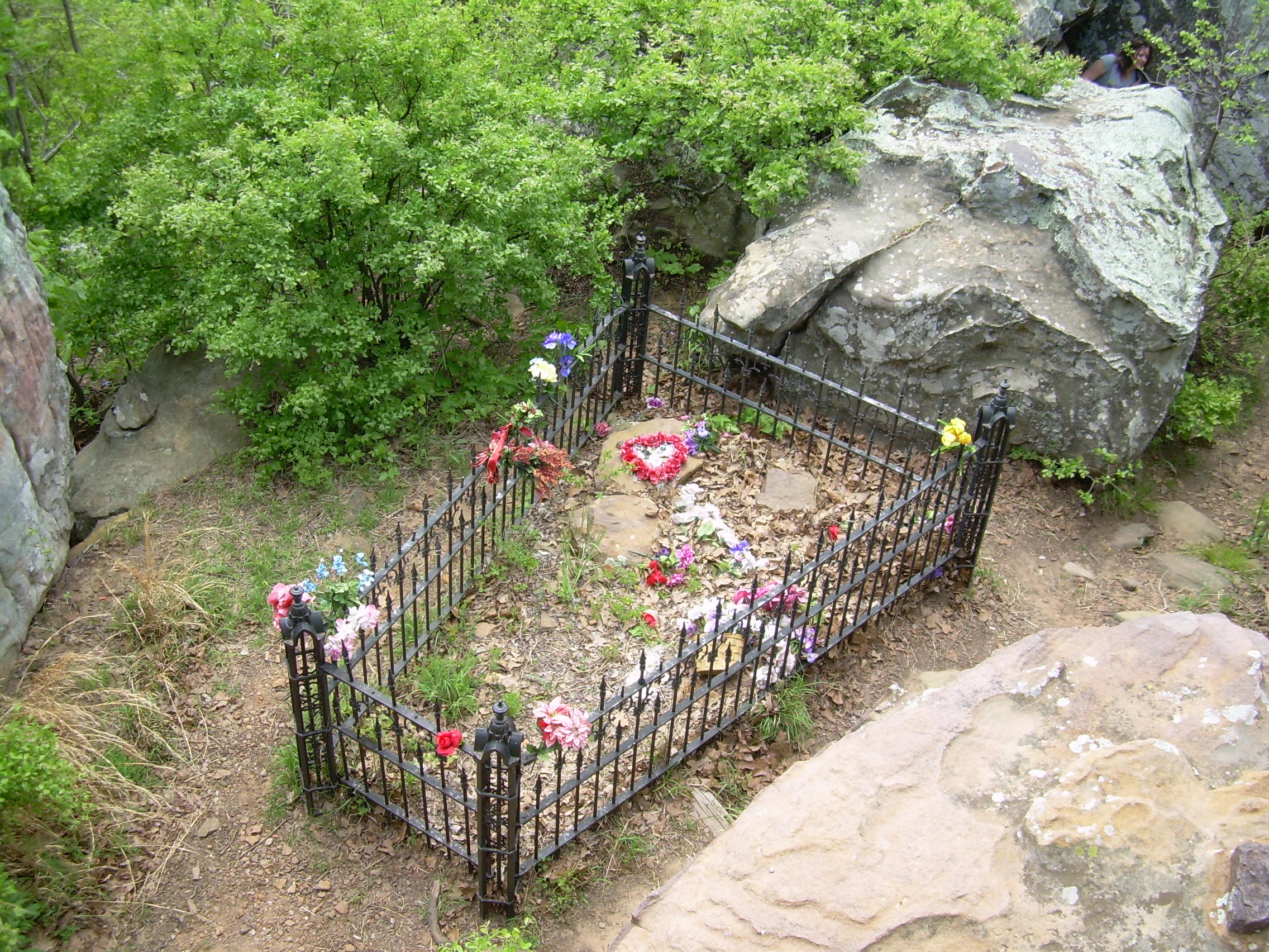 The grave of "Petit Jean", after whom the mountain is named.